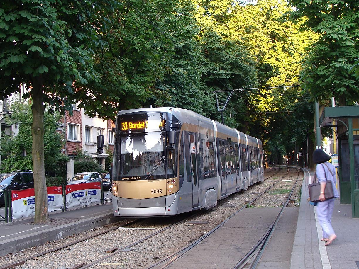 Motor coach 3039 with the height of Vanderkindere towards Bordet Station